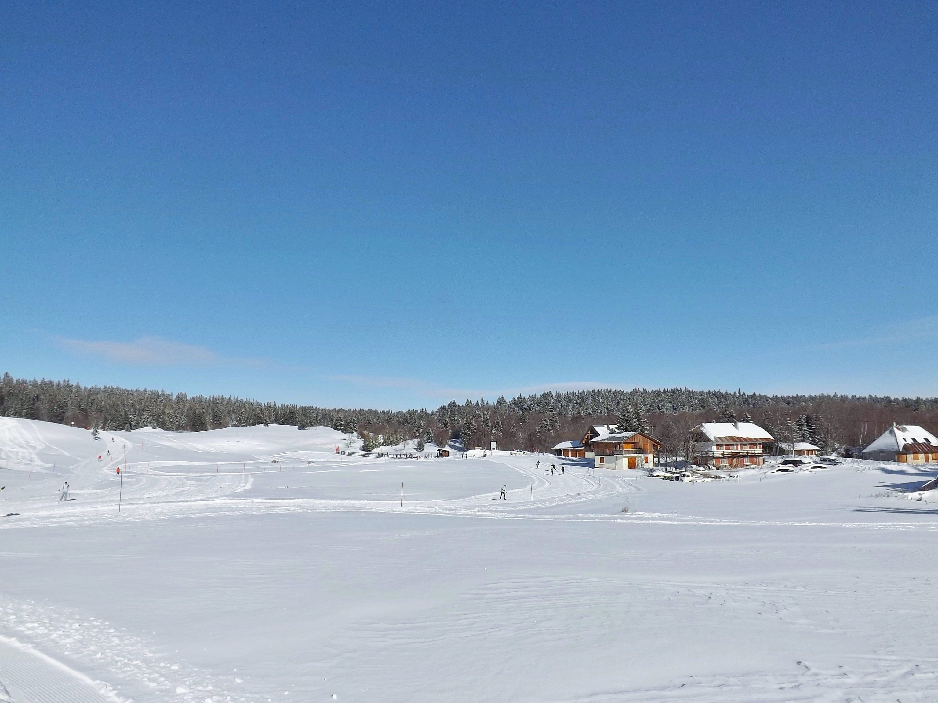 Sight in winter, of the nordic zone of La Féclaz ski resort, part of the Savoie Grand Domaine ski area, in Savoie, France.